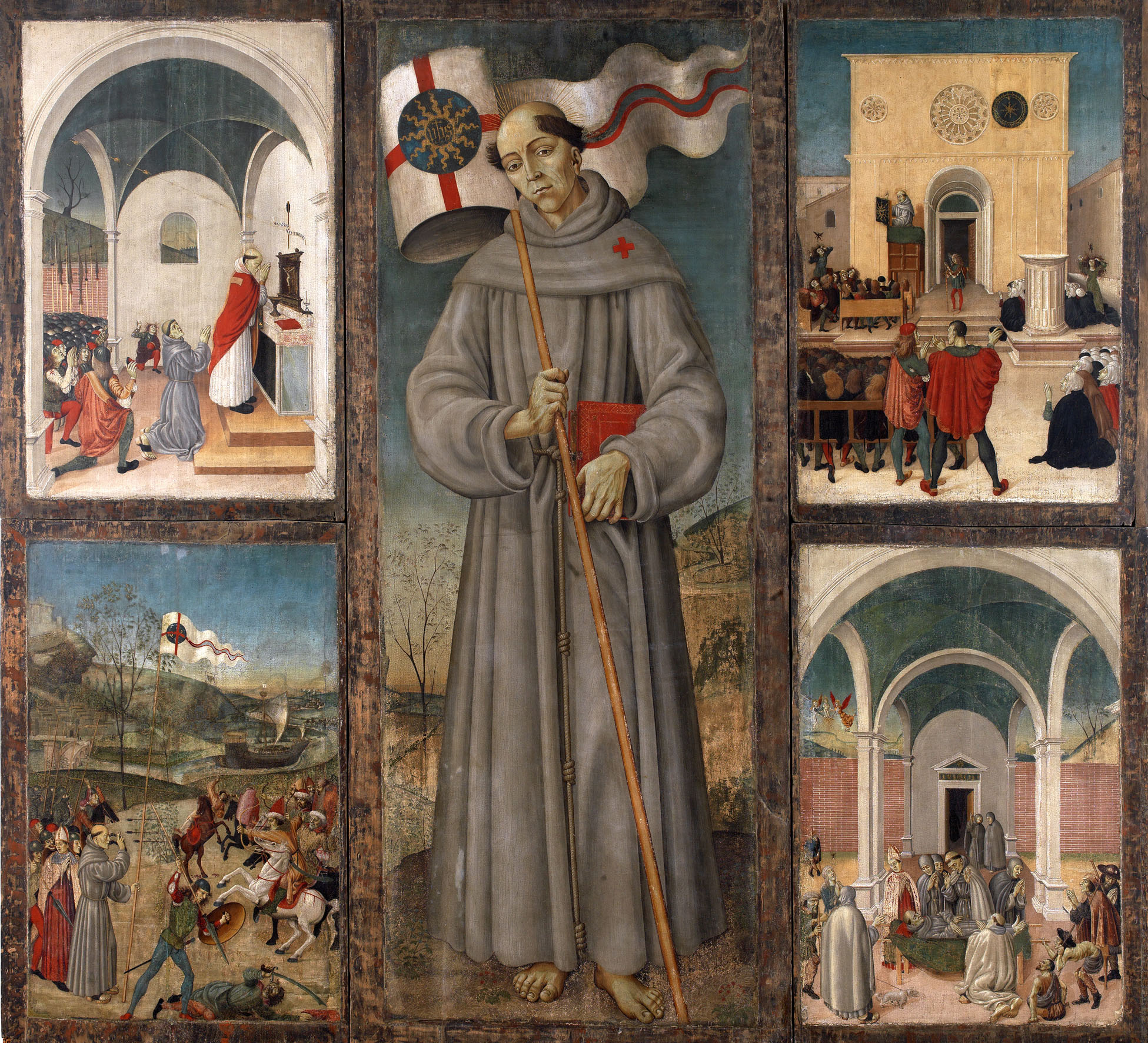 L'Aquila, Museo Nationale, Maestro di San Giovanni da Capistrano (Giovanni di Bartolomeo dell’Aquila), cc.1480-1485. The four side panels represent scenes of the saint's life [counter-clockwise]: in the upper left panel, Holy Mass celebrated on the battle field in the presence of the Crusaders below it, the Battle of Belgrade, where the Crusaders fought against the Turks in the top right panel, a sermon given by St. John in L'Aquila, during which some possessed people were healed. in the background is the Cathedral of St. Maximus, as it would appear before the catastrophic earthquake of 1703 that destroyed it almost completely. in the lower right panel, the death of the saint. The panel, dated between 1480 and 1485 (and then just thirty years after the death of the saint) was first attributed to Sebastiano di Cola from Casentino; later on, to a "Maestro delle Storie di S. Giovanni da Capestrano", who also authored "St. Francis Receiving the Stigmata", stored in the same room of the museum. According to the latest studies, this Maestro should be identified with Giovanni di Bartolomeo from Aquila, as recorded in Naples by a notary deed of June 1448: this painter shows a Gothic formation in his meticulous attention to detail, and a Renaissance influence in the use of perspective and volumes.